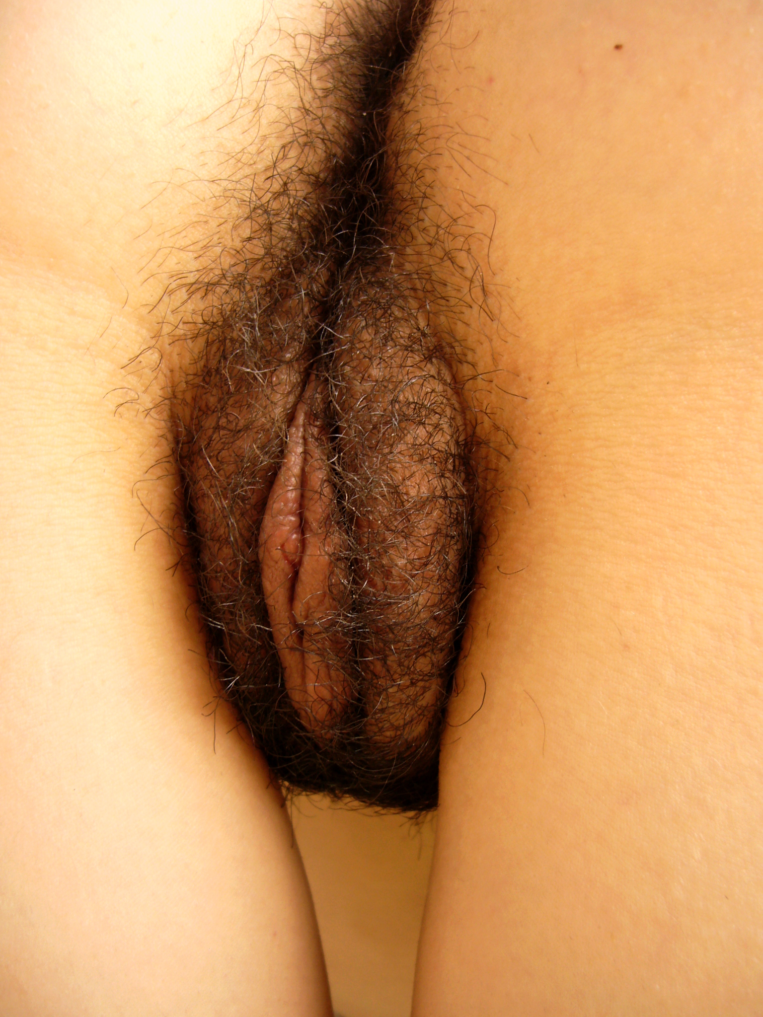 Human female vulva